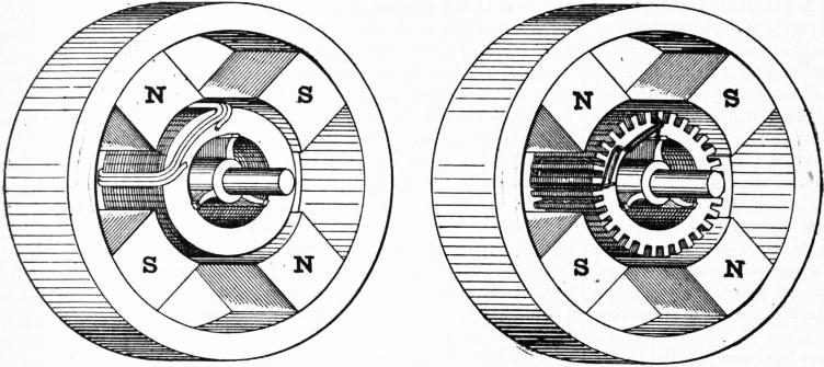 In this type of heteropolar dynamo, the drum coil is applied to the external surface of a rotating armature, the field-magnet being external and stationary.